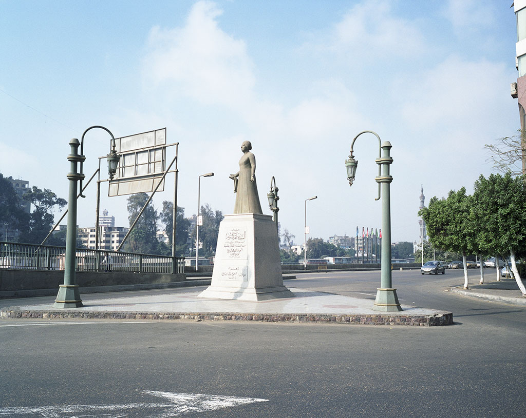 Monument to singer and musician Umm Kulthum-(Oum Kalsoum) in Zamalek district, Gezira Island, in Cairo.